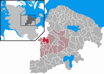 This map shows the area of the Gemeinde (municipality) Honigsee in the Kreis (district) Plön, Schleswig-Holstein, Germany.